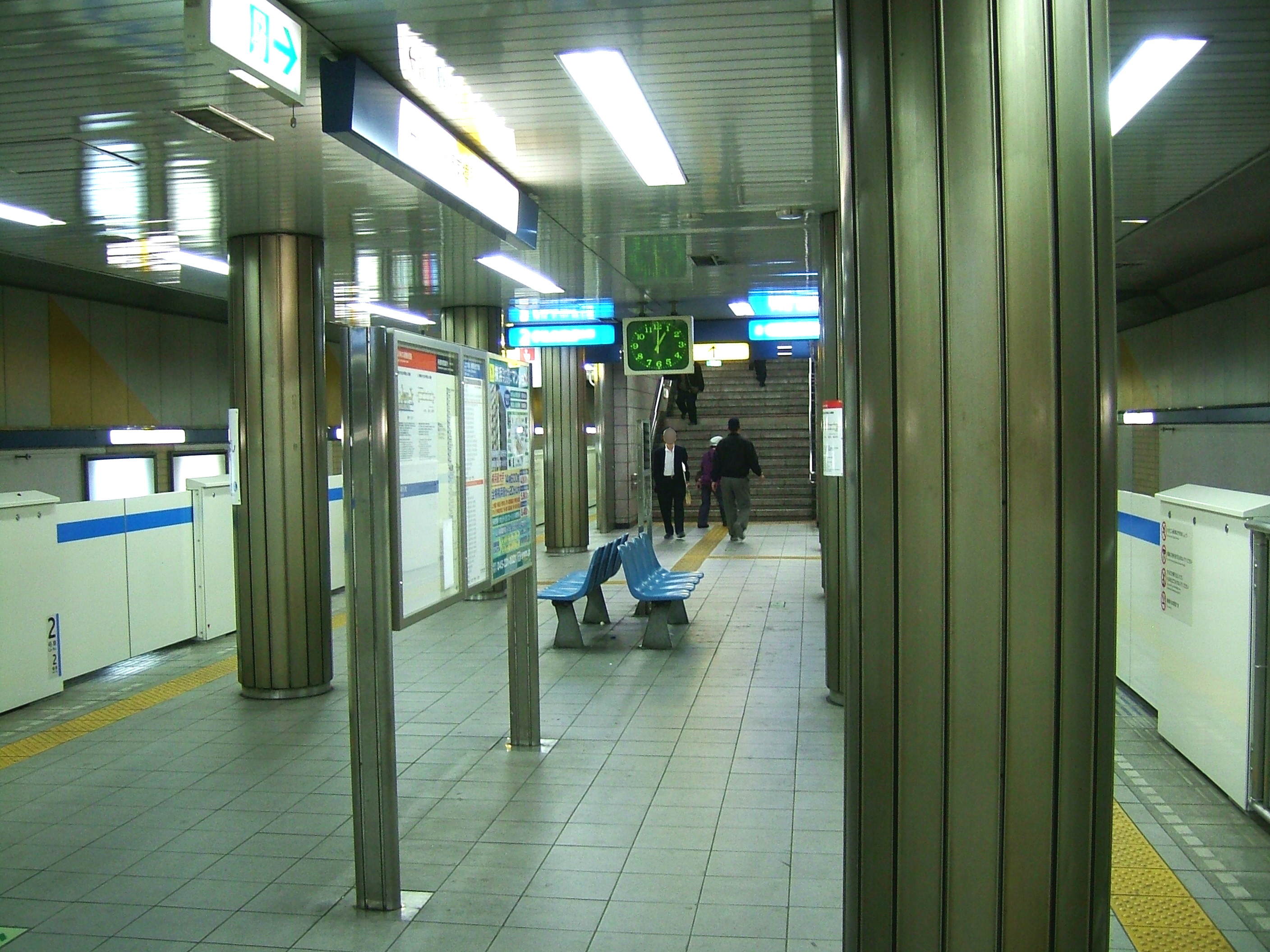 Bandōbashi Station platform (Yokohama Municipal Subway Blue Line)